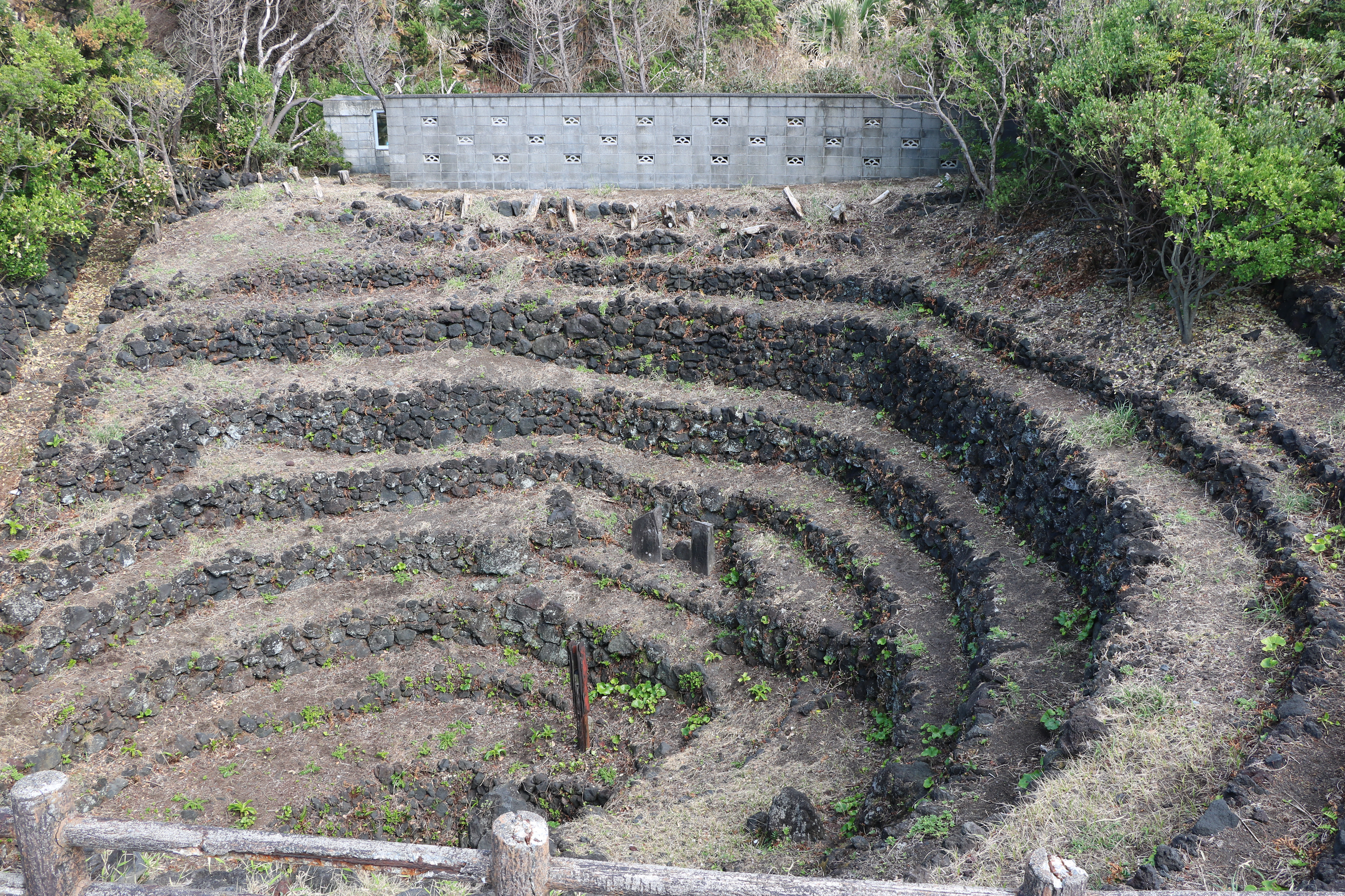 Yaene spirral well